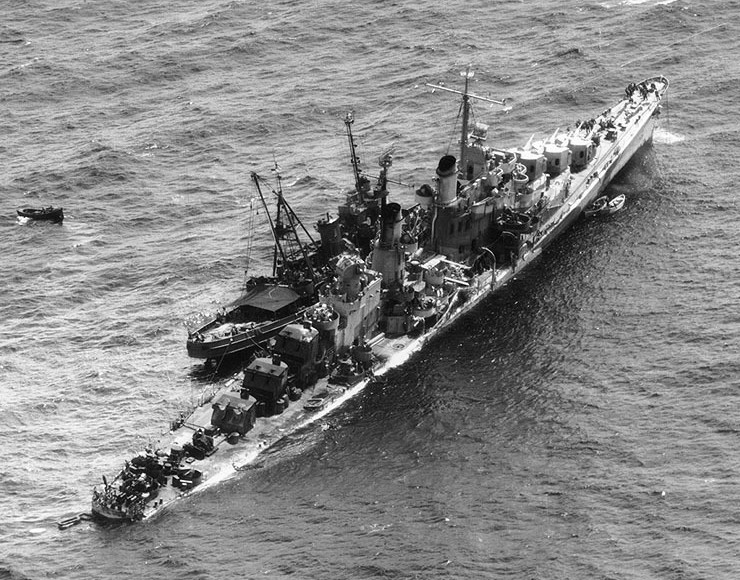 The U.S. Navy light cruiser USS Reno (CL-96) under salvage after she was torpedoed by the Japanese submarine I-41 on 3 November 1944, while operating off the Philippines. The photograph was taken the following day and shows the tug with USS Zuni (ATF-95) alongside.